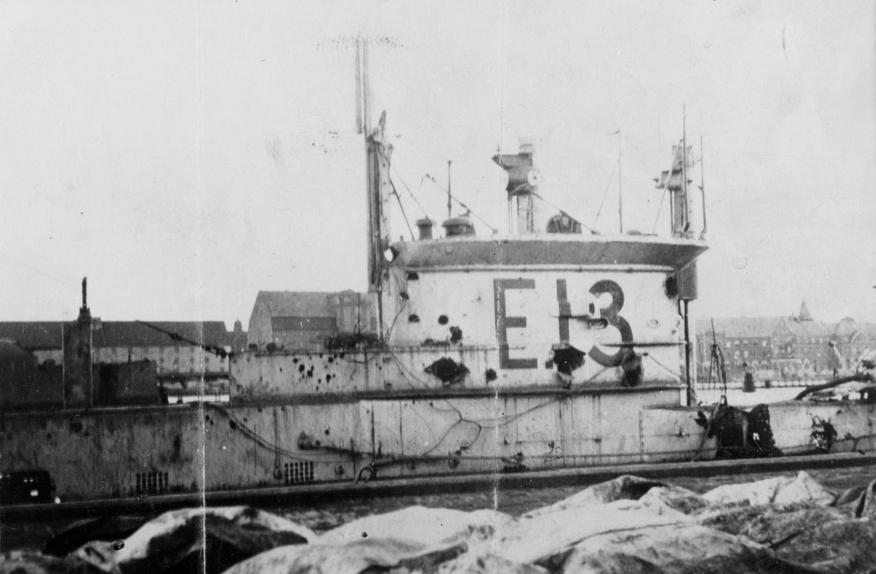 E13 alongside dock at Copenhagen, August 1915, note damage caused by German gunfire, 1915